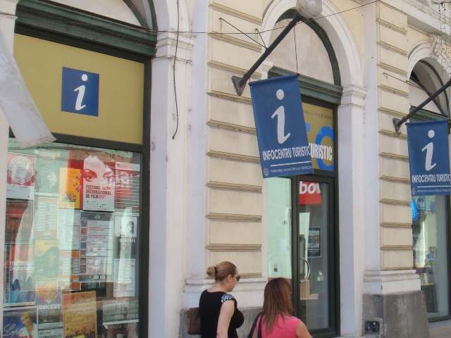 en: Tourist Information in Timisoara